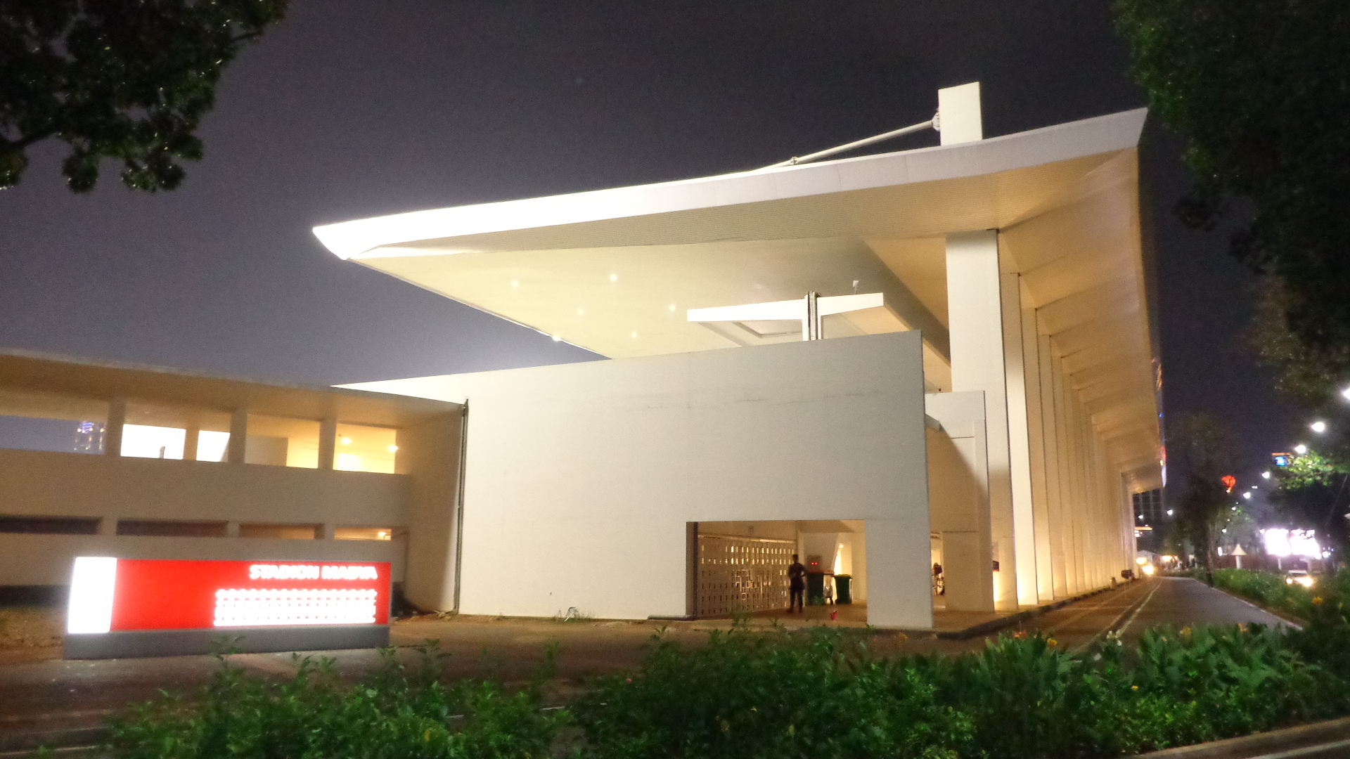 Gelora Bung Karno's Madya Stadium with full lighting